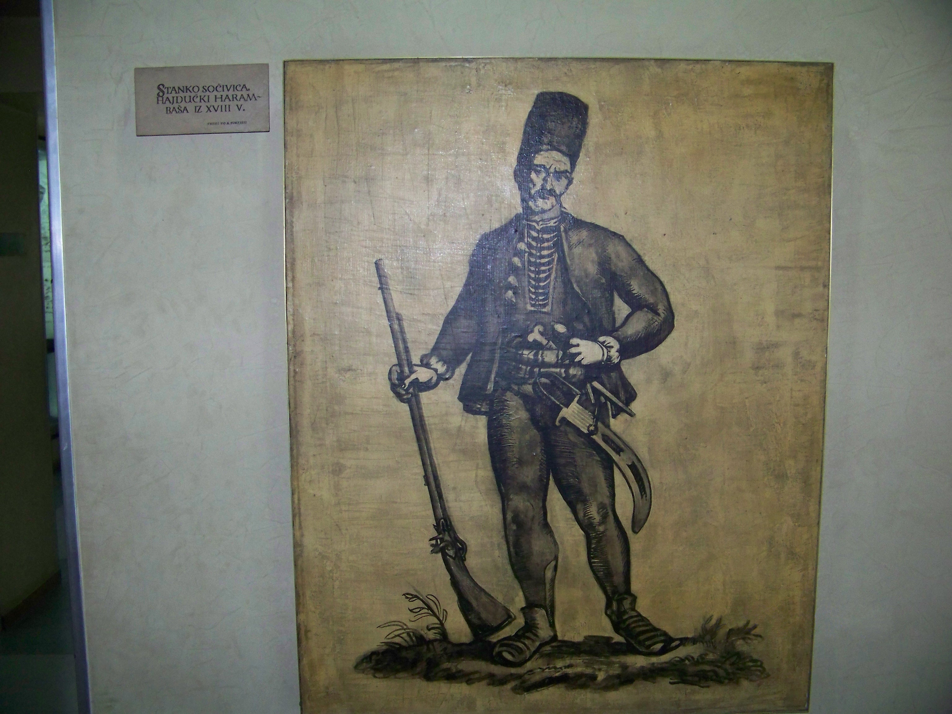 Stanko Sočivica, Serbian hajduk (highway robber and freedom fighter), 18th century